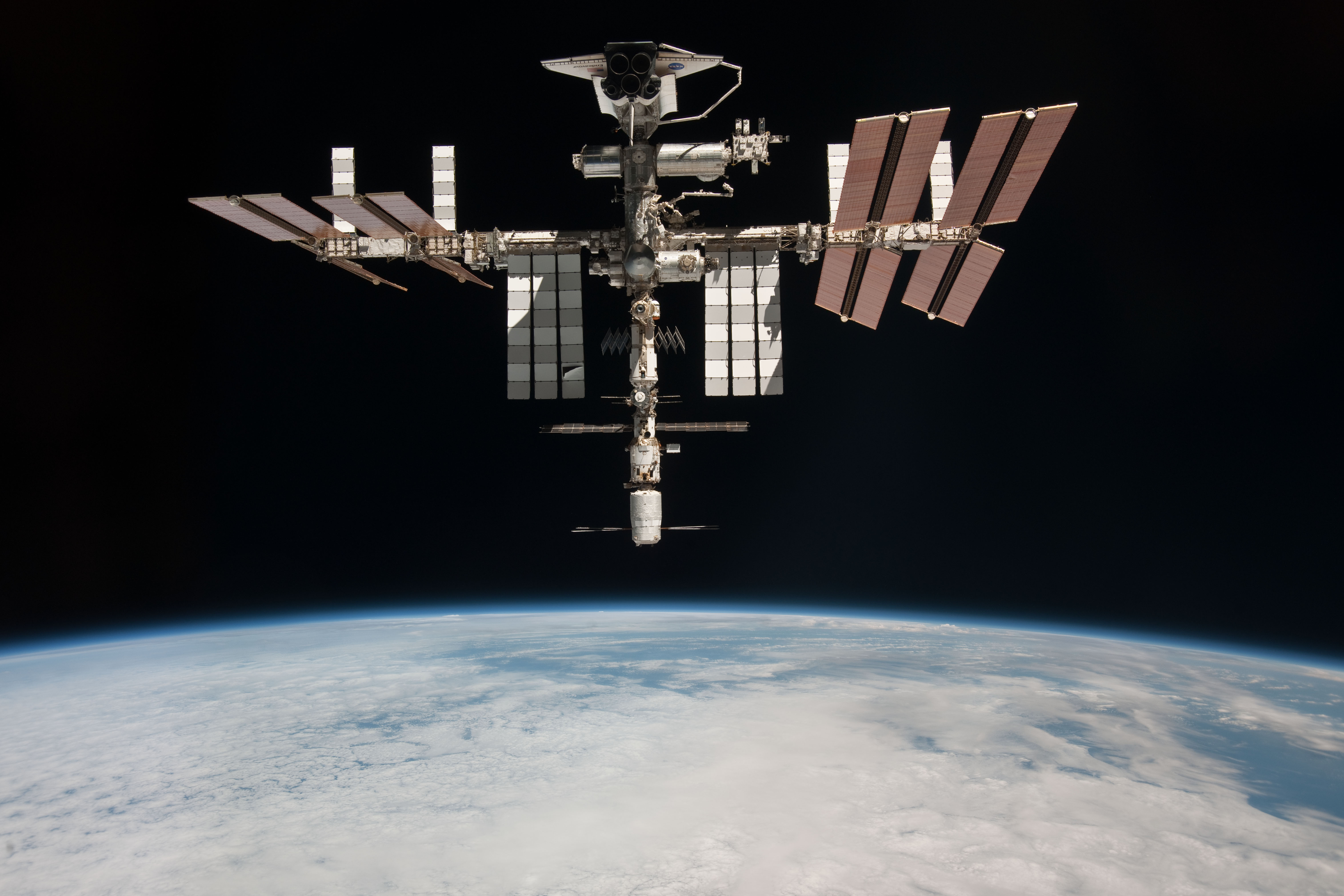 This image of the International Space Station and the docked space shuttle Endeavour, flying at an altitude of approximately 220 miles, was taken by Expedition 27 crew member Paolo Nespoli from the Soyuz TMA-20 following its undocking on May 23, 2011 (USA time). The pictures are the first taken of a shuttle docked to the International Space Station from the perspective of a Russian Soyuz spacecraft. Onboard the Soyuz were Russian cosmonaut and Expedition 27 commander Dmitry Kondratyev; Nespoli, a European Space Agency astronaut; and NASA astronaut Cady Coleman. Coleman and Nespoli were both flight engineers. The three landed in Kazakhstan later that day, completing 159 days in space.